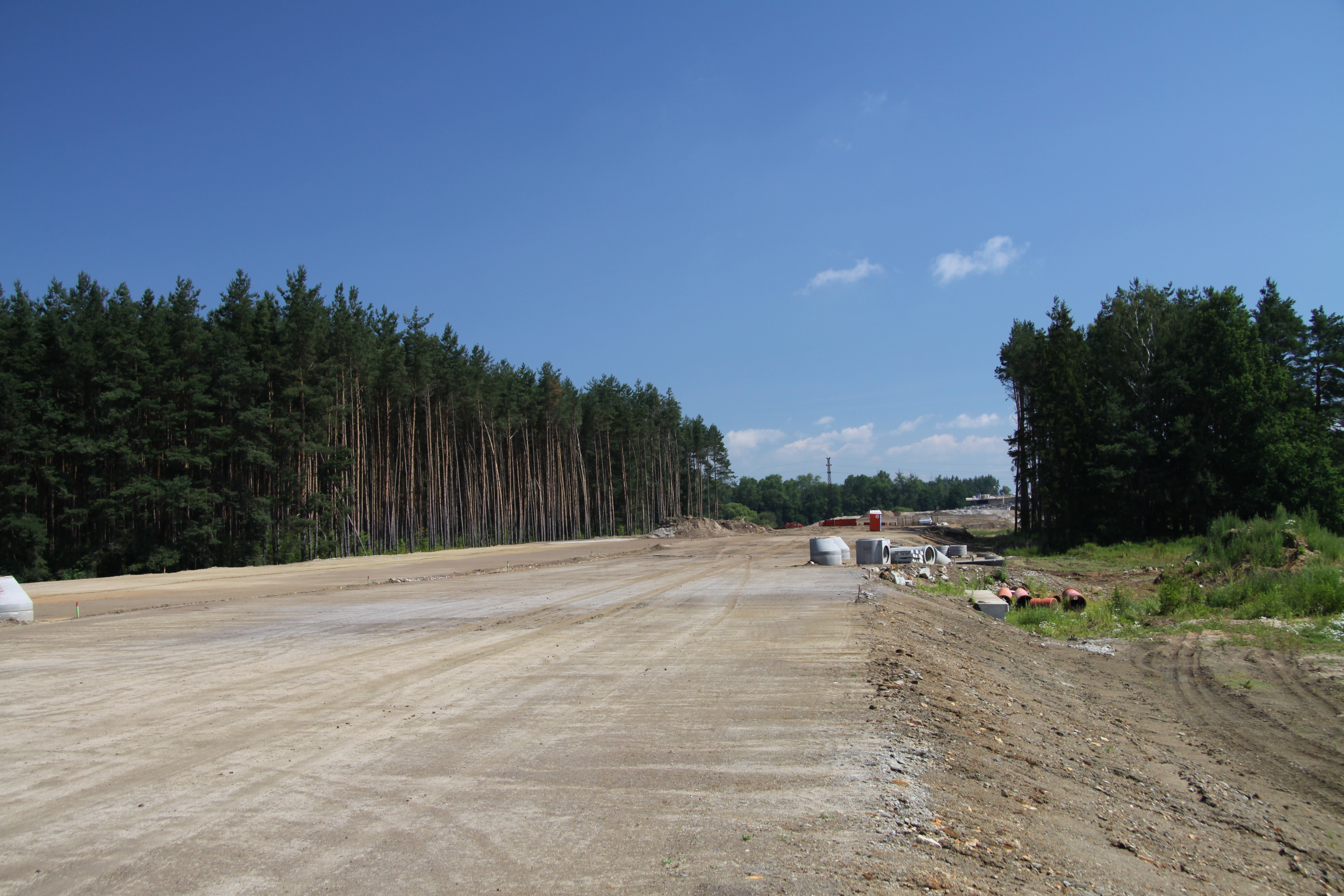 Building of Highway D3 near Žíšov village in Tábor District, Czech Republic - Google Maps - Google Earth